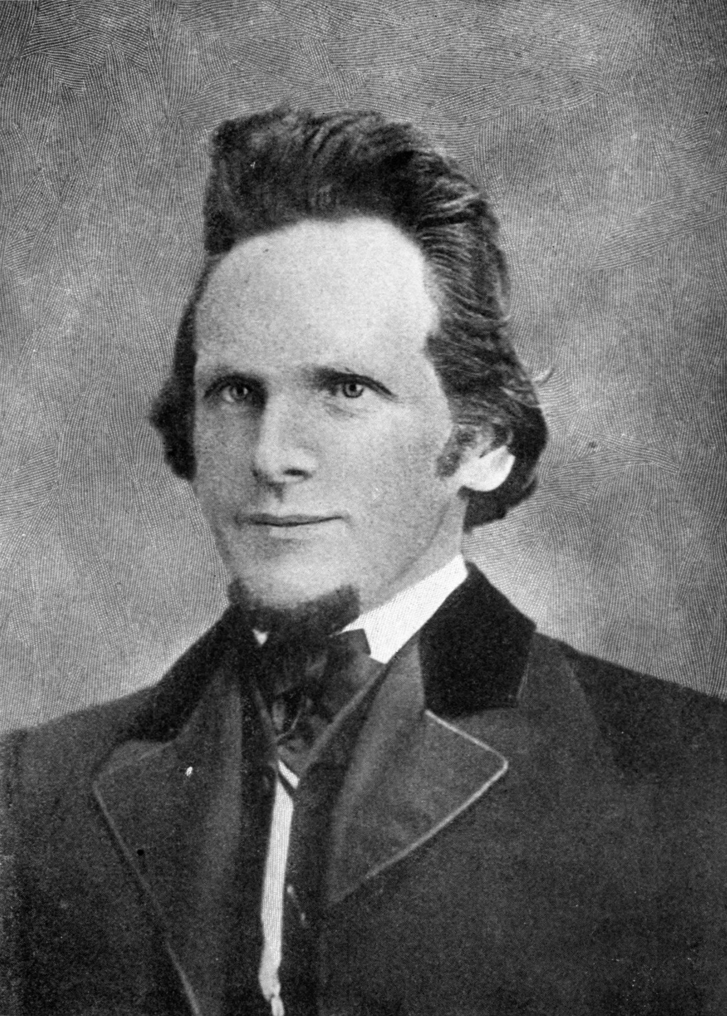 Asa Gilbert Eddy (died June 3, 1882), third husband of Mary Baker Eddy, founder of Christian Science